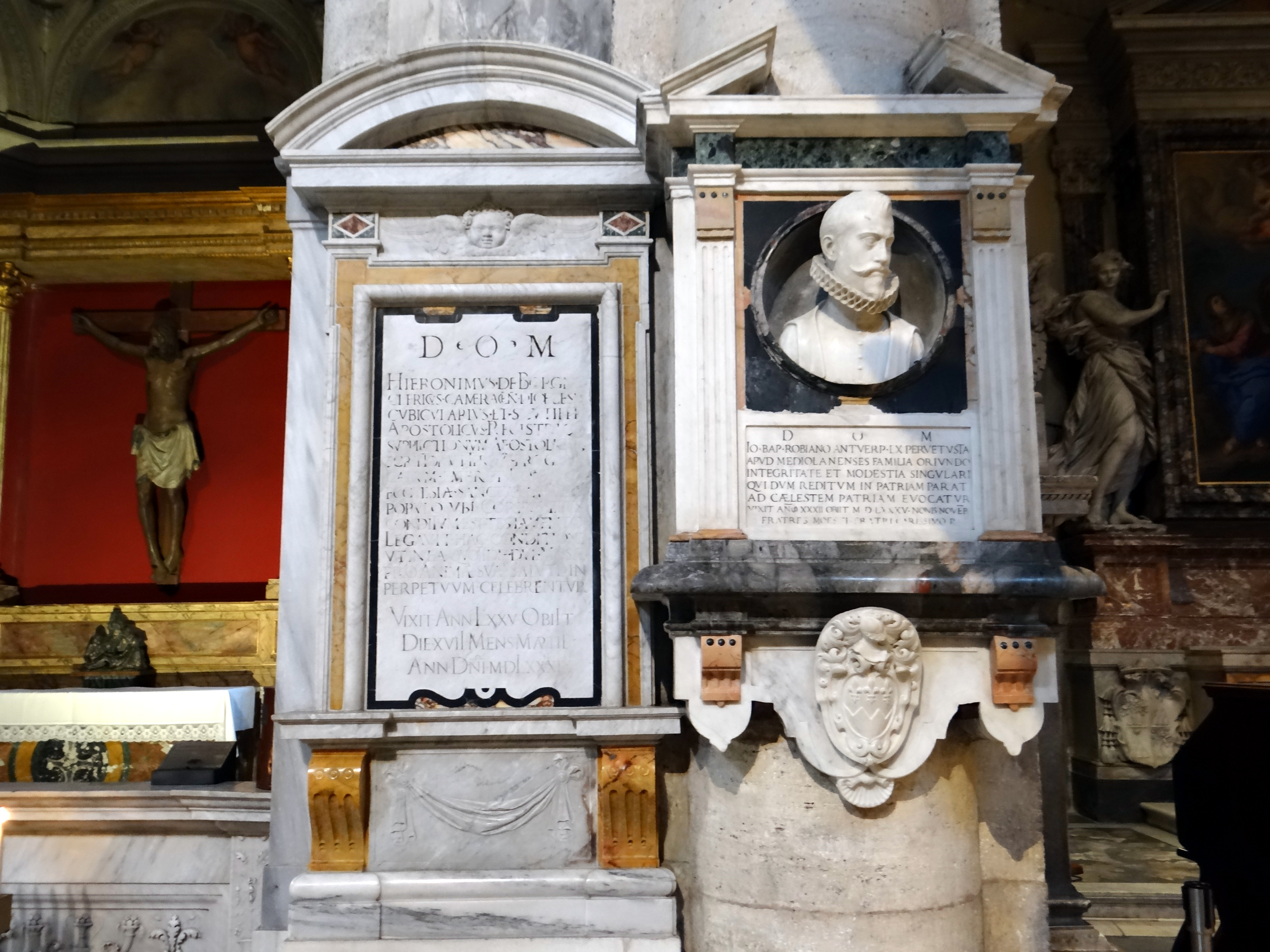 The epitaph of Geronimo de Borgne (died in 1589) and the monument of Giovanni Batttista Robiano (died in1585) in the Basilica of Santa Maria del Popolo, Rome.